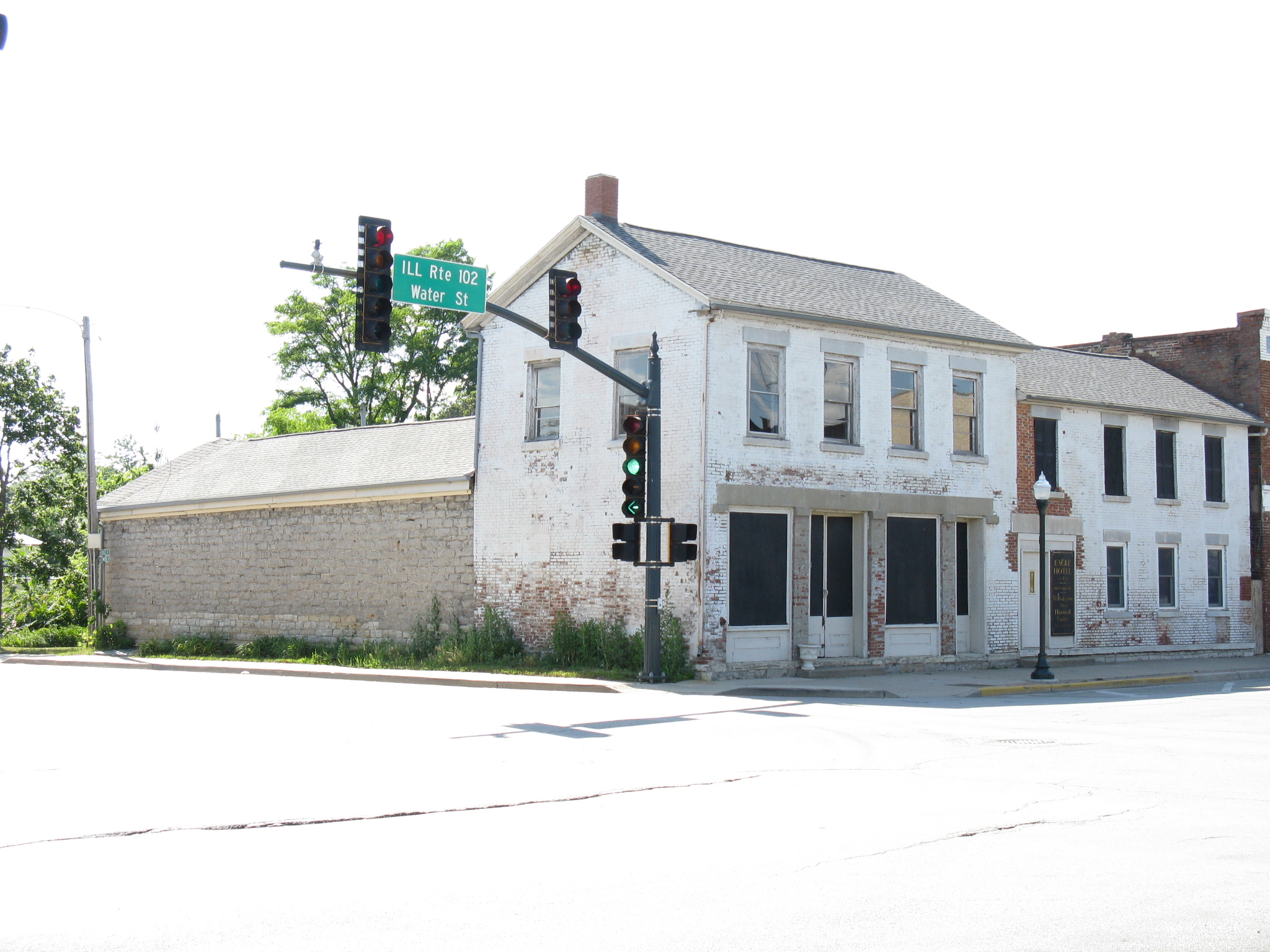 Eagle Hotel, Wilmington, Illinois. This building is listed on the National Register of Historic Places.